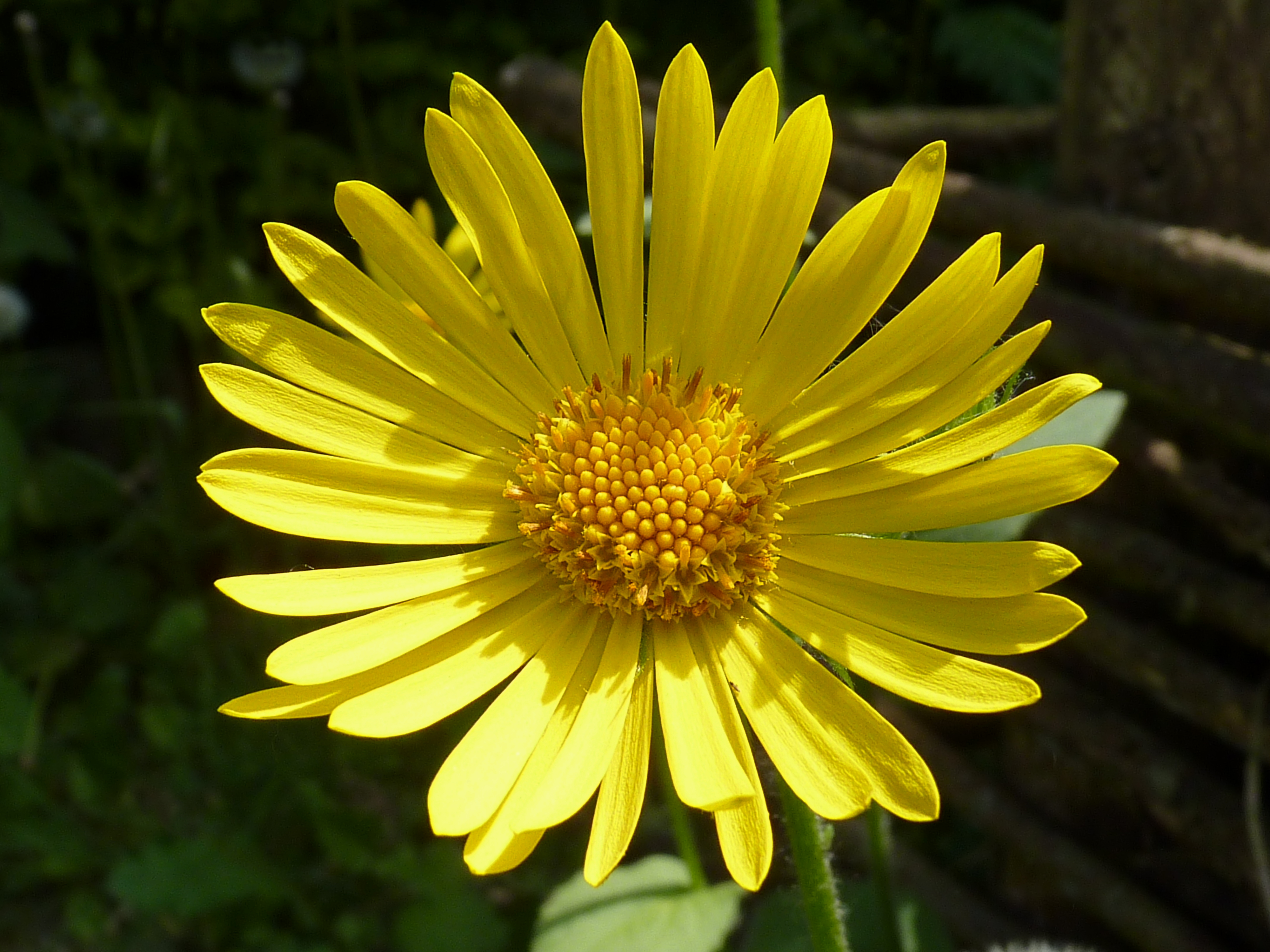 Doronicum pardalianches, in a wild garden in Belgium.